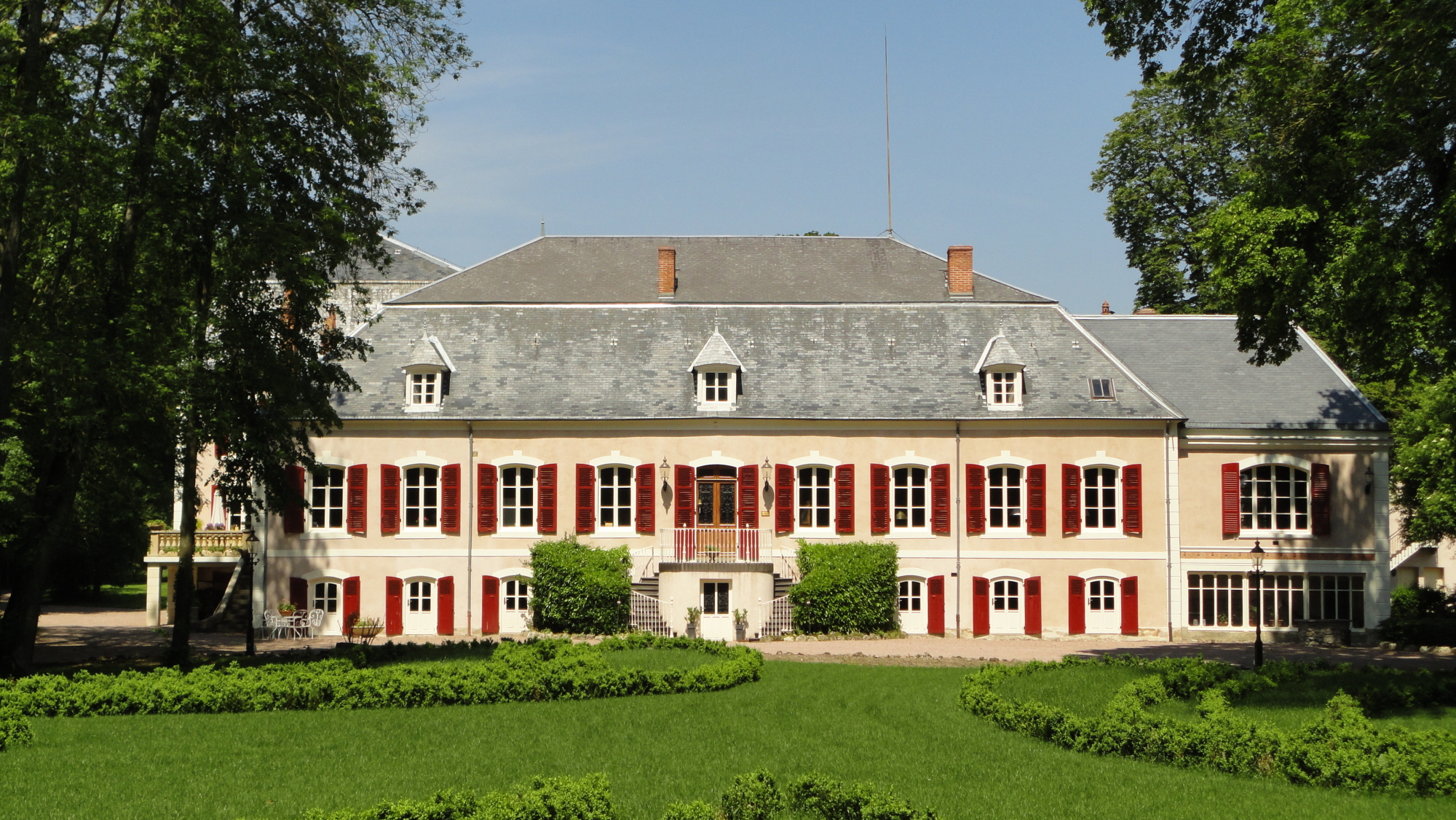 Chateau la Boulaize - Montaigu le Blin